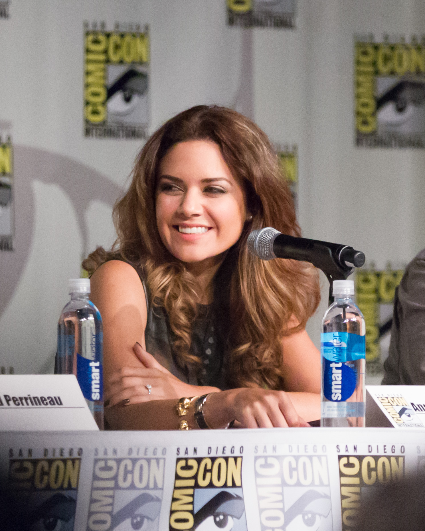 Angélica Celaya at the 2014 Comic Con presentation for the TV show Constantine